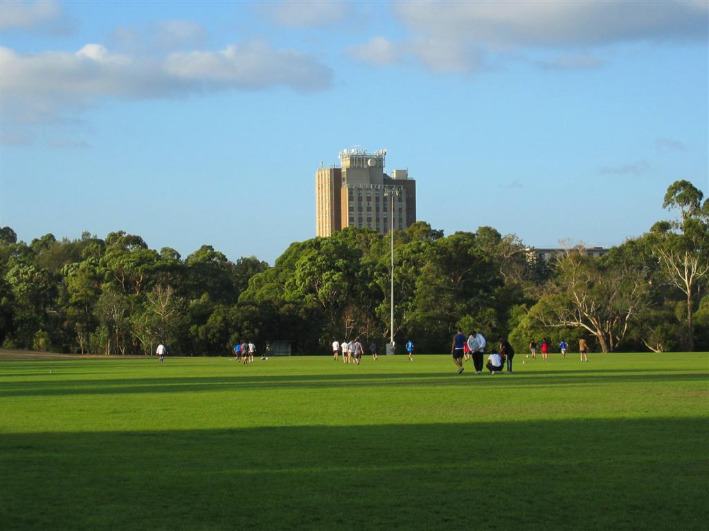 Photographer: User:Vincentshia (Vincent Pac Soo) Website: Vincent's Space